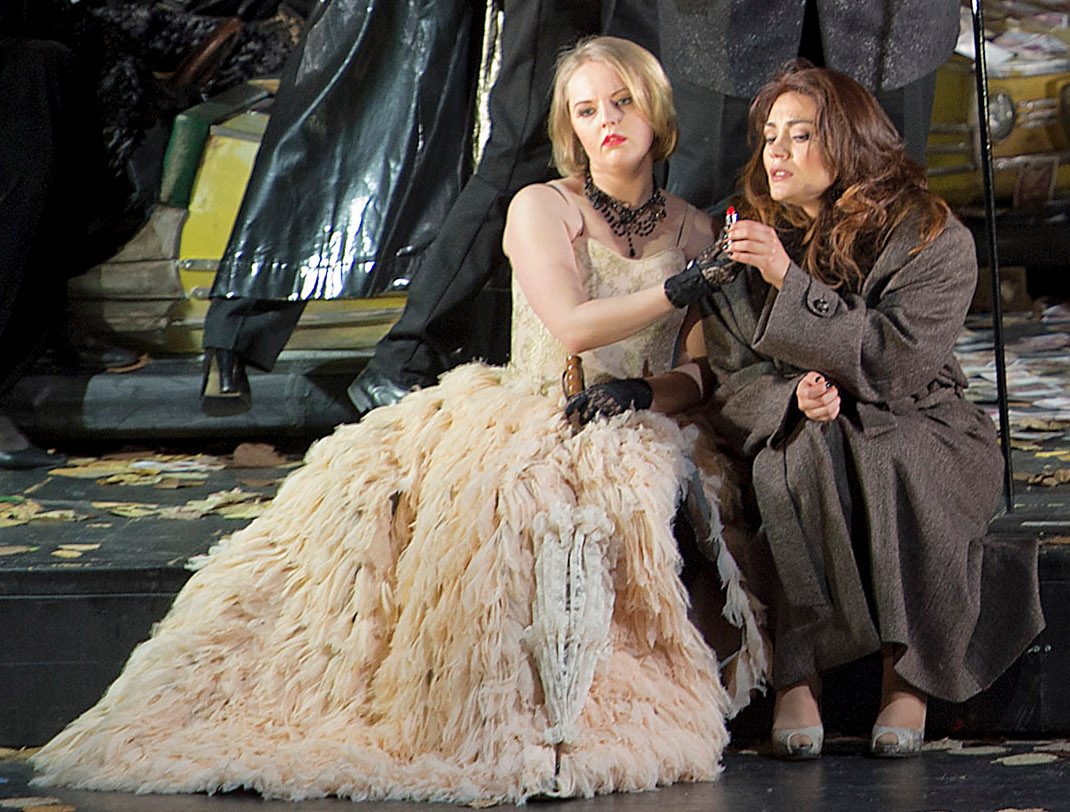 Production of La Traviata at Hamburgische Staatsoper 2013, stage photo: Maria Markina as Floria Bervoix, Ailyn Pérez as Violetta Valéry, in the background Jan Buchwald as Il Barone Duphol.